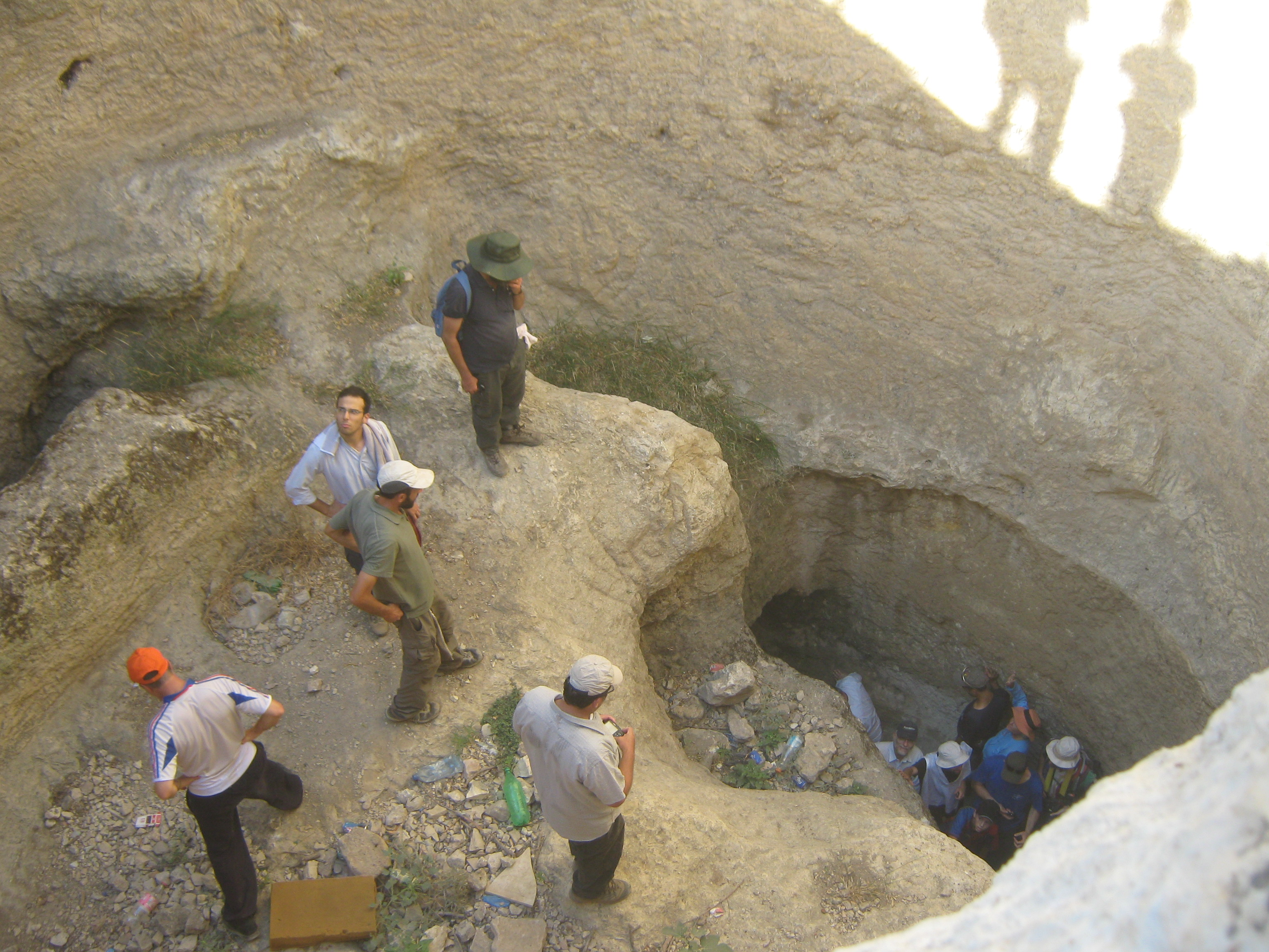 Gibeon pool and well